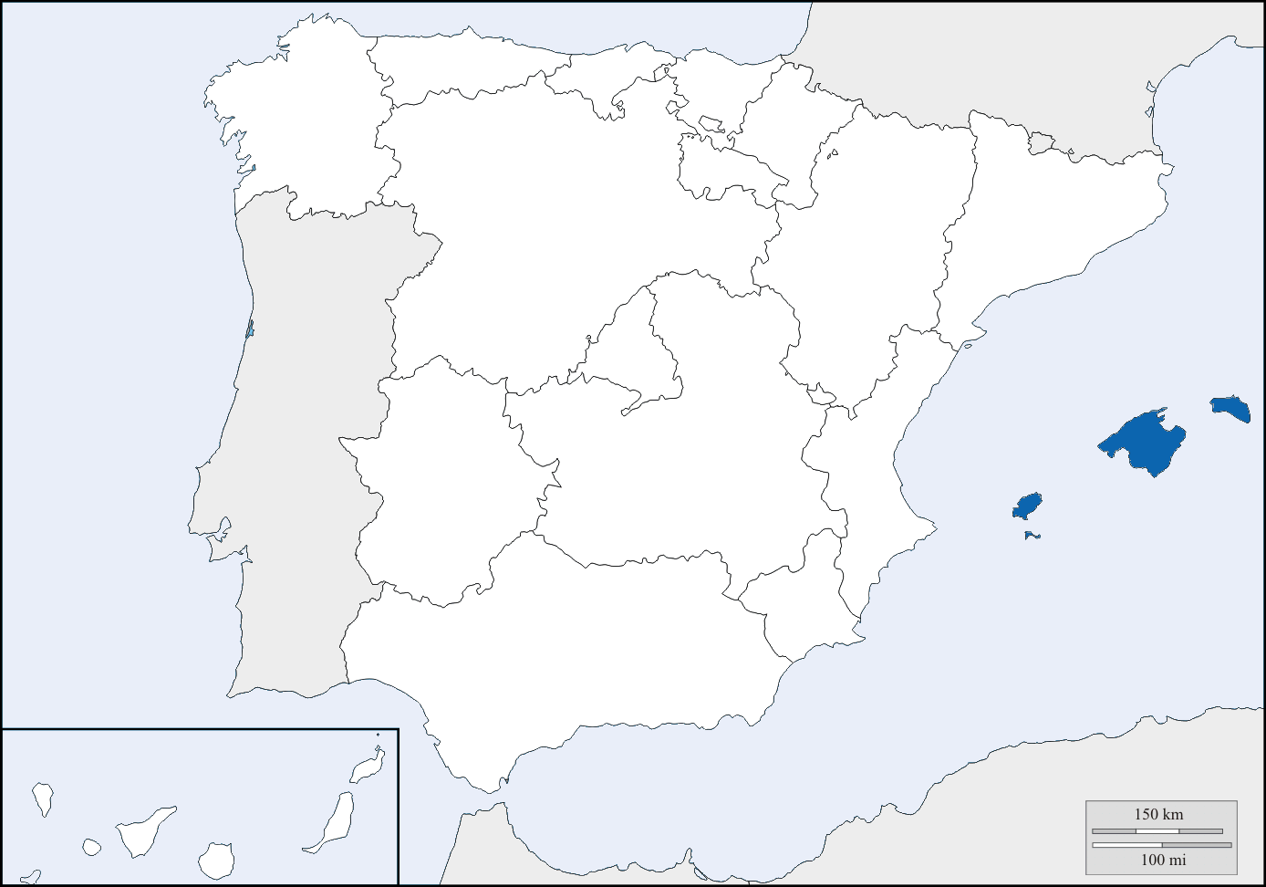 Location of the Balearic Islands within Spain.